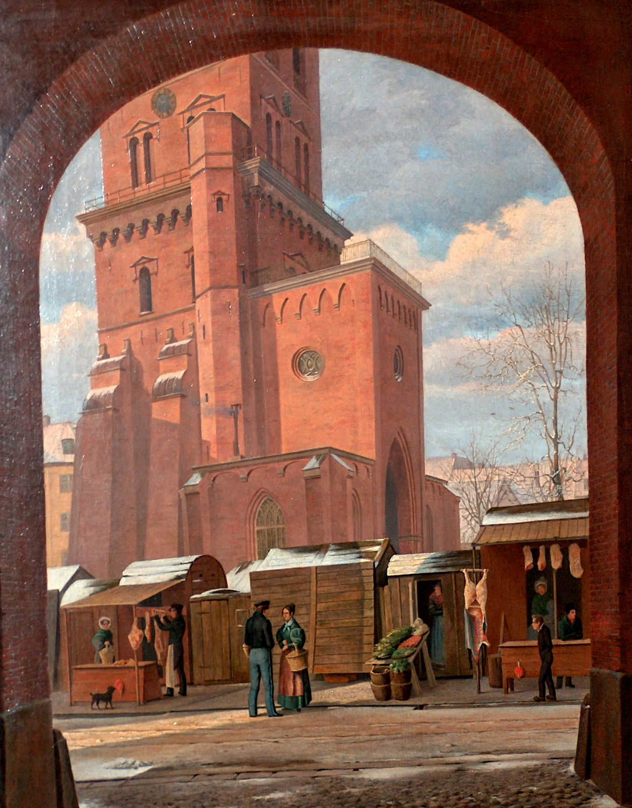 Nikolaj Tårn with market stalls in Copenhagen, Denmark